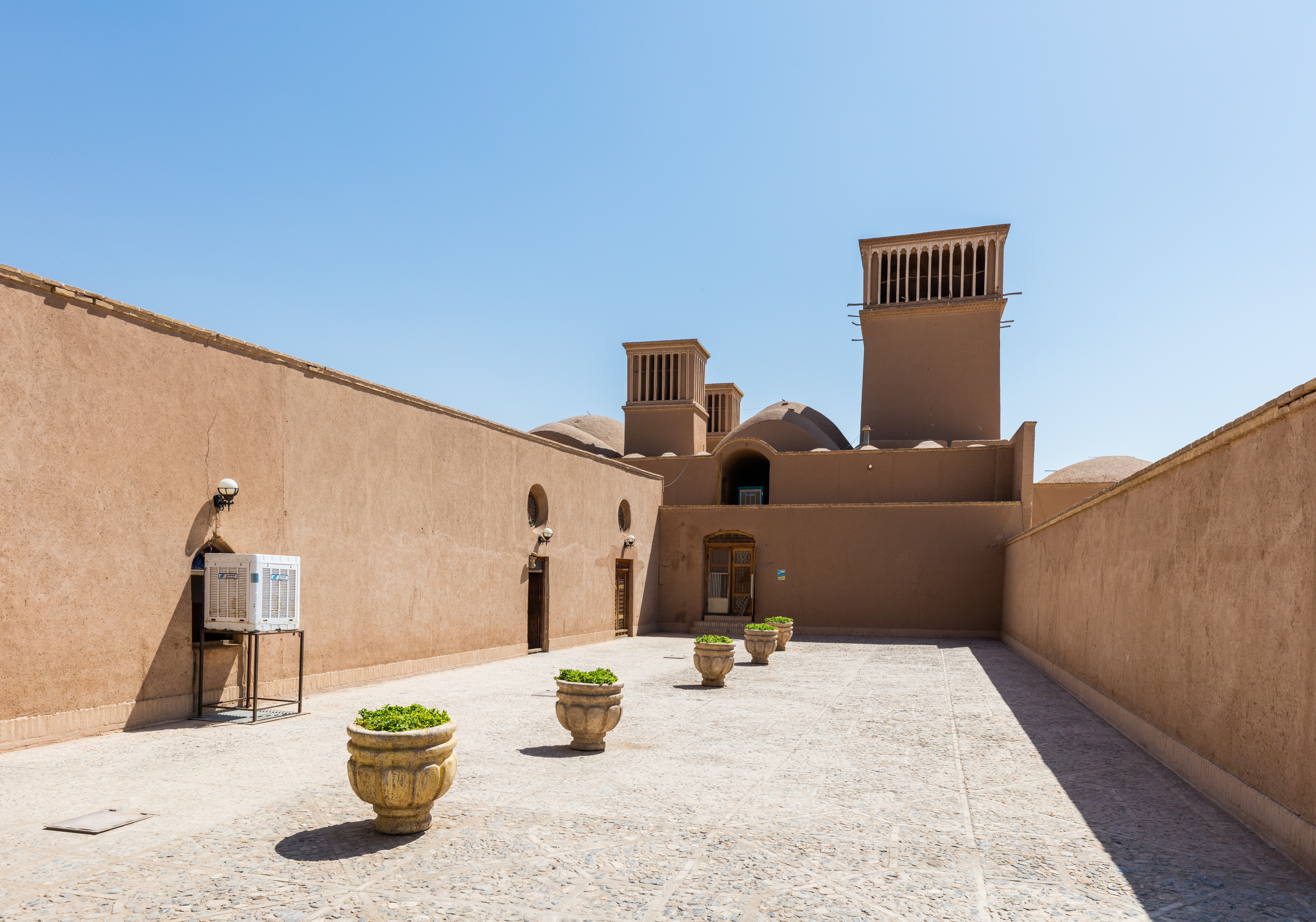 Building in Yazd, Iran